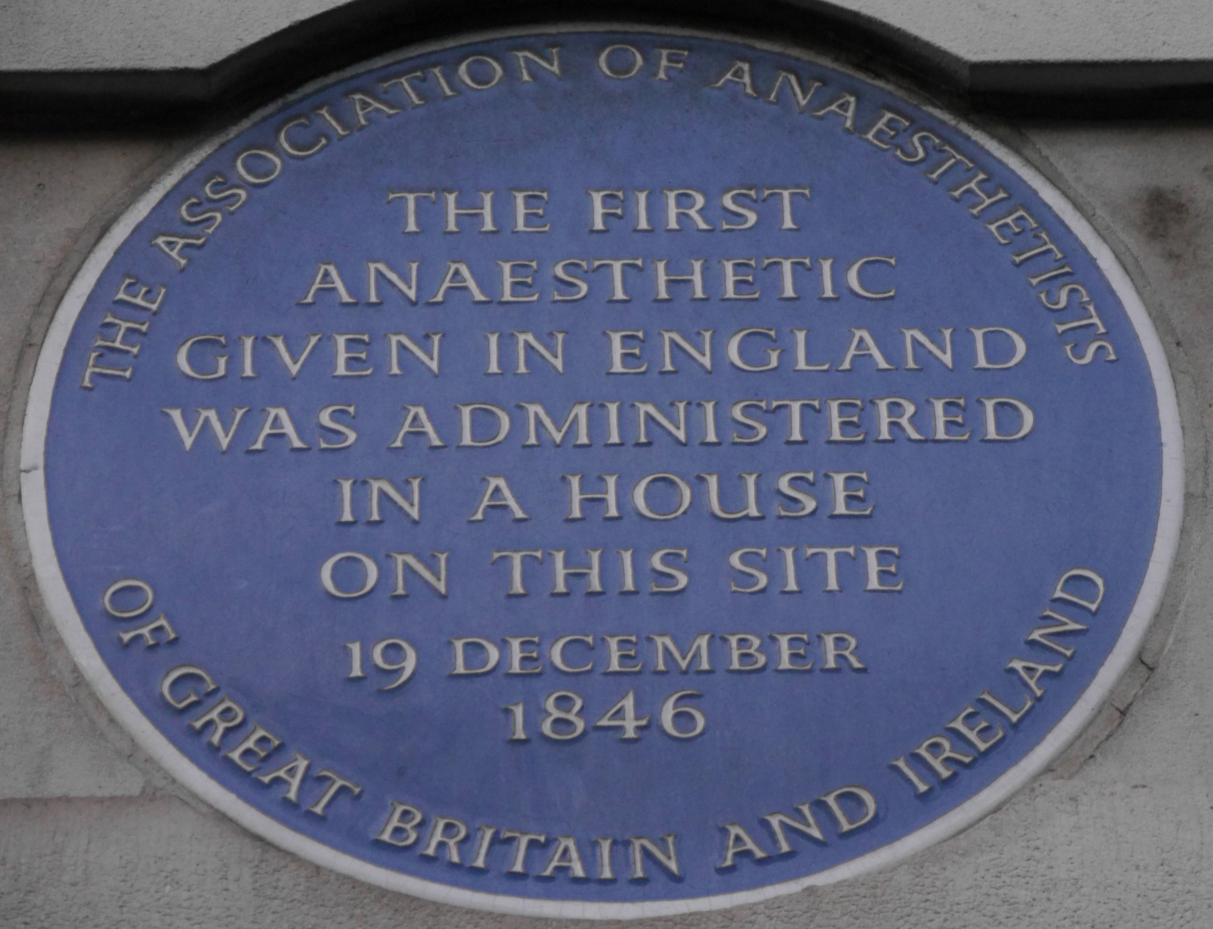 Association of Anaesthetists blue plaque at 24 Gower Street